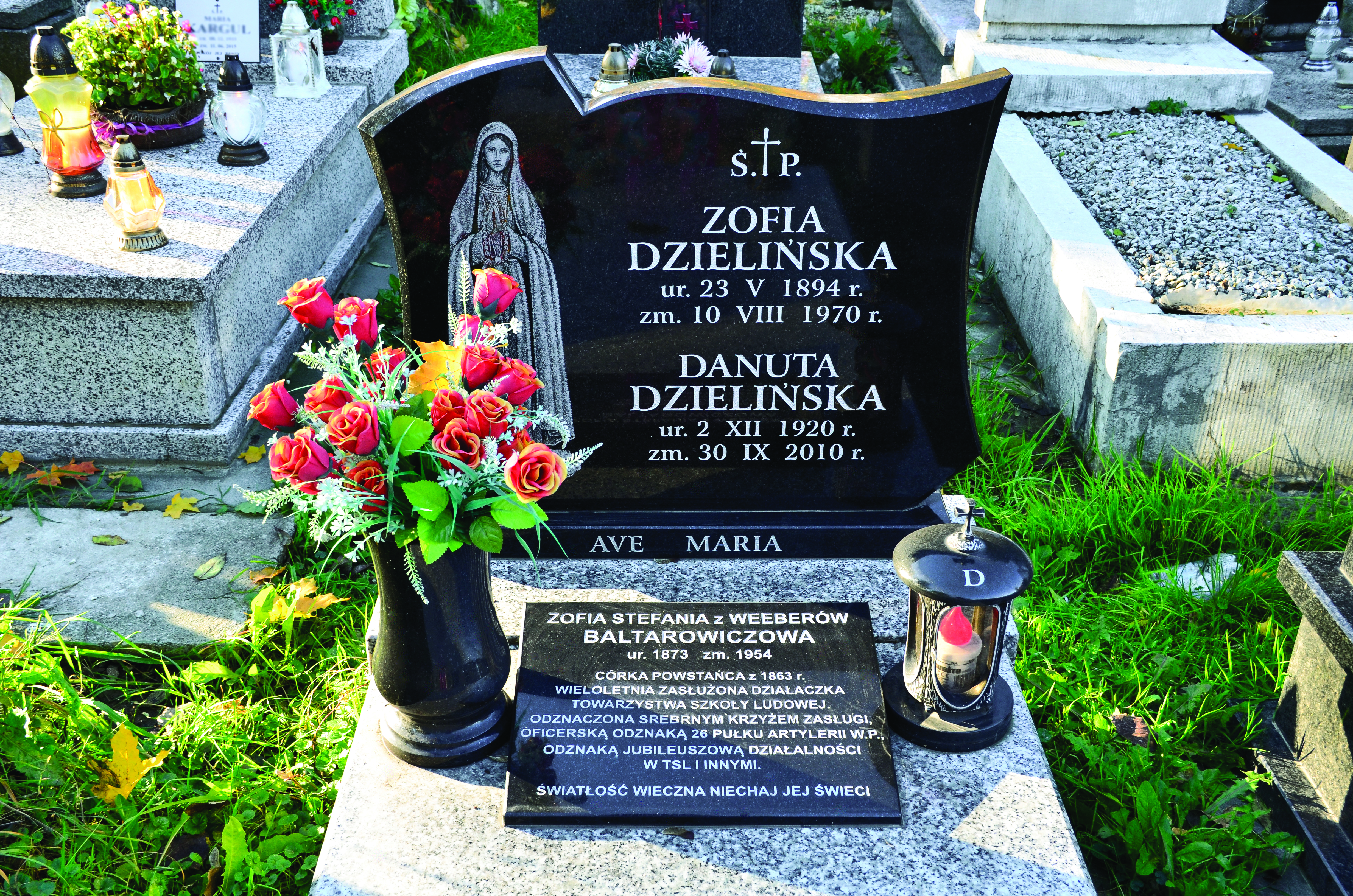 The tomb of Zofia Baltarowicz-Dzielińska